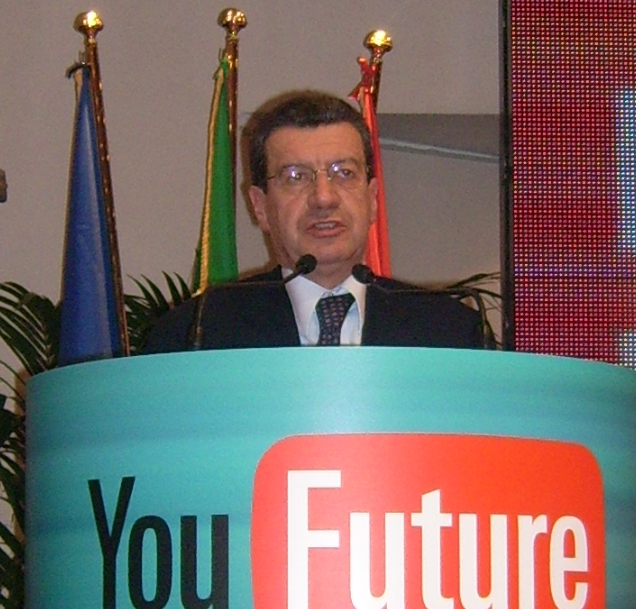 Vannino Chiti, National Congress of the Left Youth, 2007